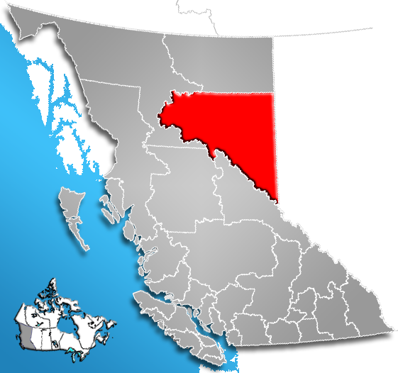 Location of Peace River Regional District, British Columbia